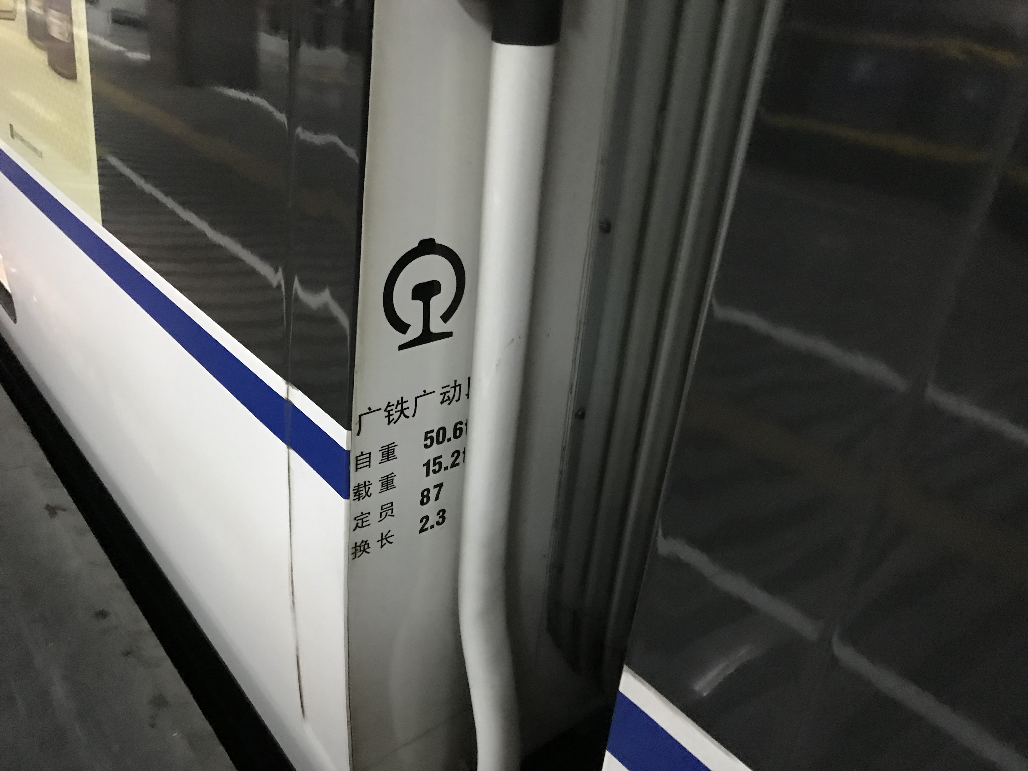 201901 Guangzhou EMU Depot Mark on CRH6A-4133